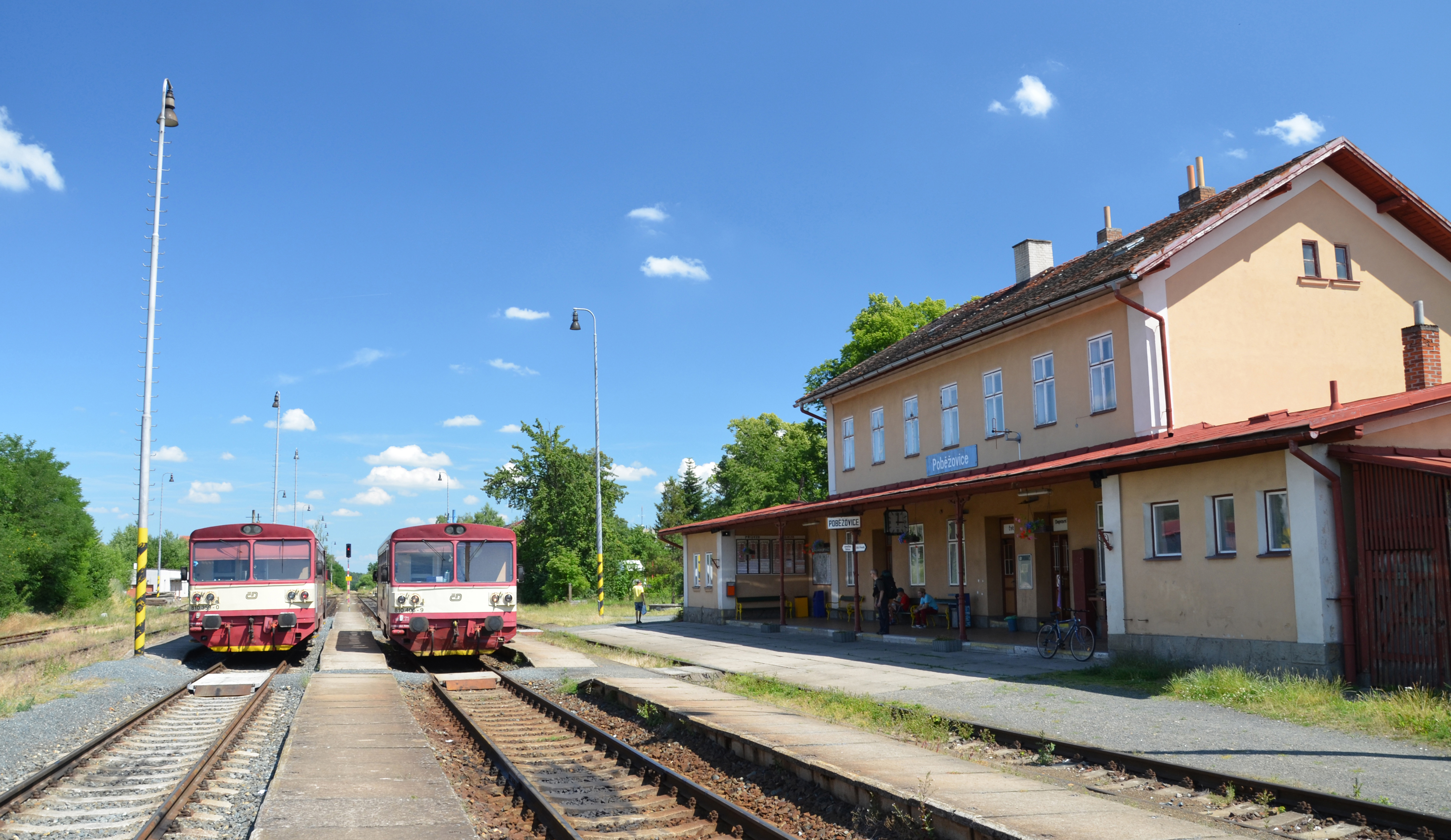 Poběžovice (train station)